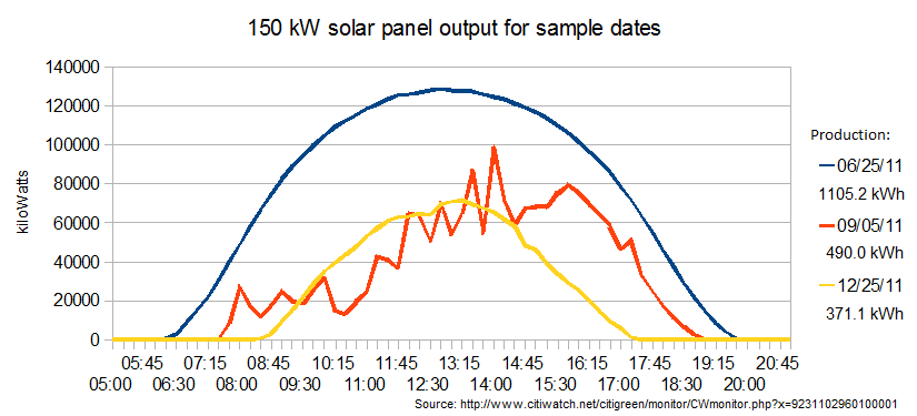 Barstow Solar Array output for selected days — summer, fall, and winter. A solar power plant in the Mojave Desert.